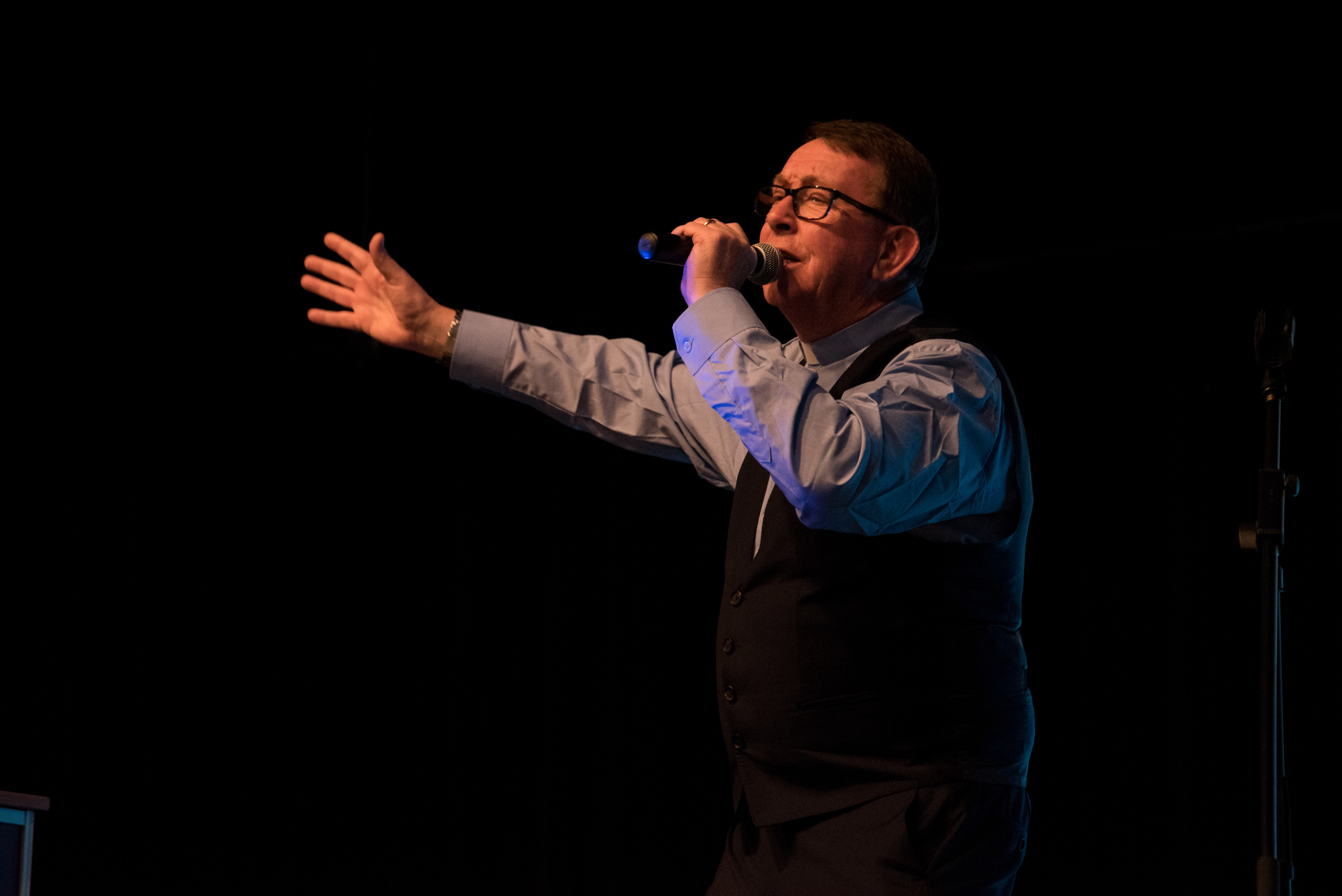 Pastor Ray Kelly singing at a charity event in Vienna, Austria